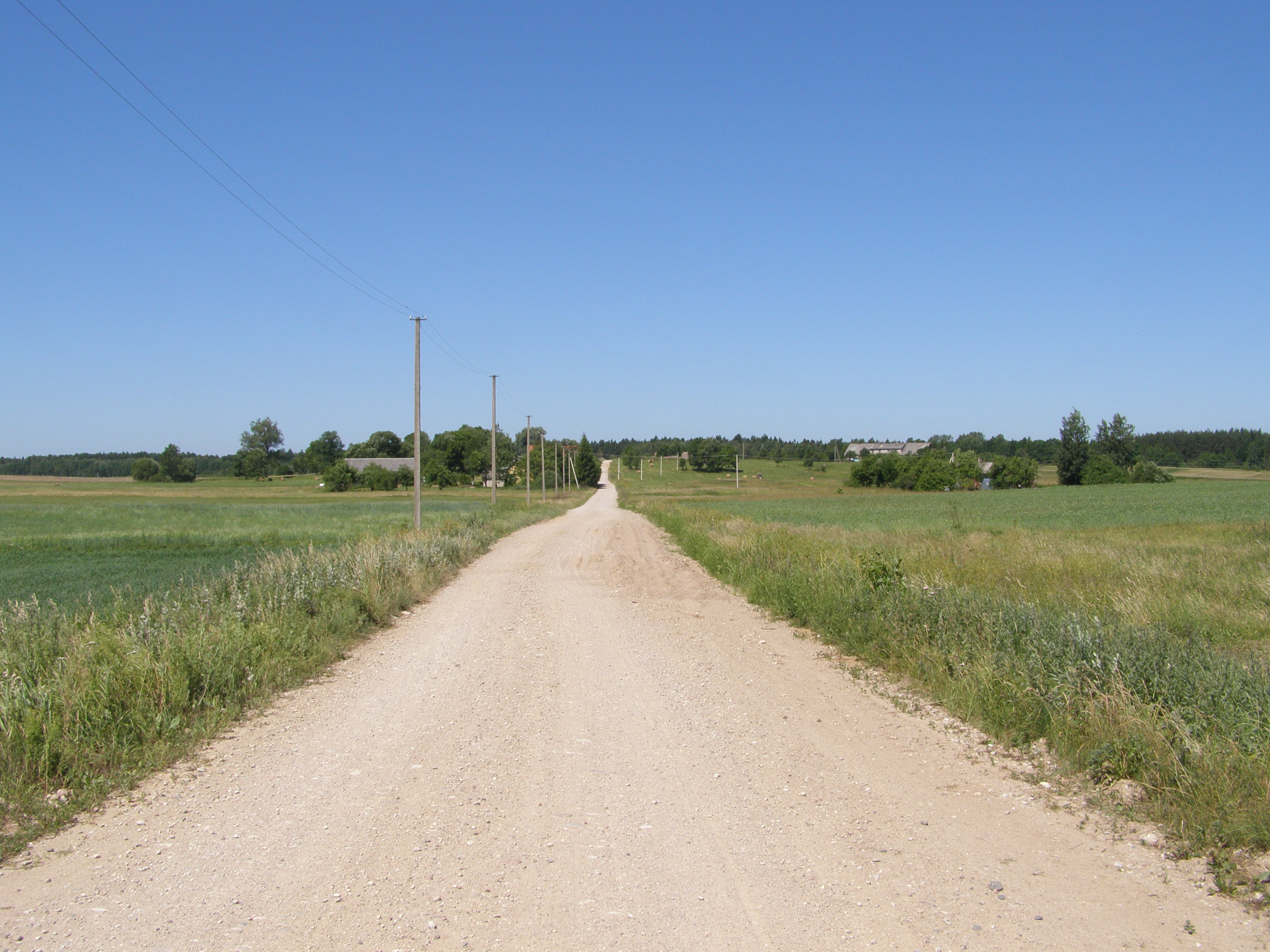 Aukštkalviai, Kretinga district, LithuaniaLietuvių: Aukštkalviai nuo Šatilgalio pusės, Kretingos rajonas, Lietuva